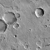 This image is from NASA, which is a government-subsidized and sponsored institute. Url